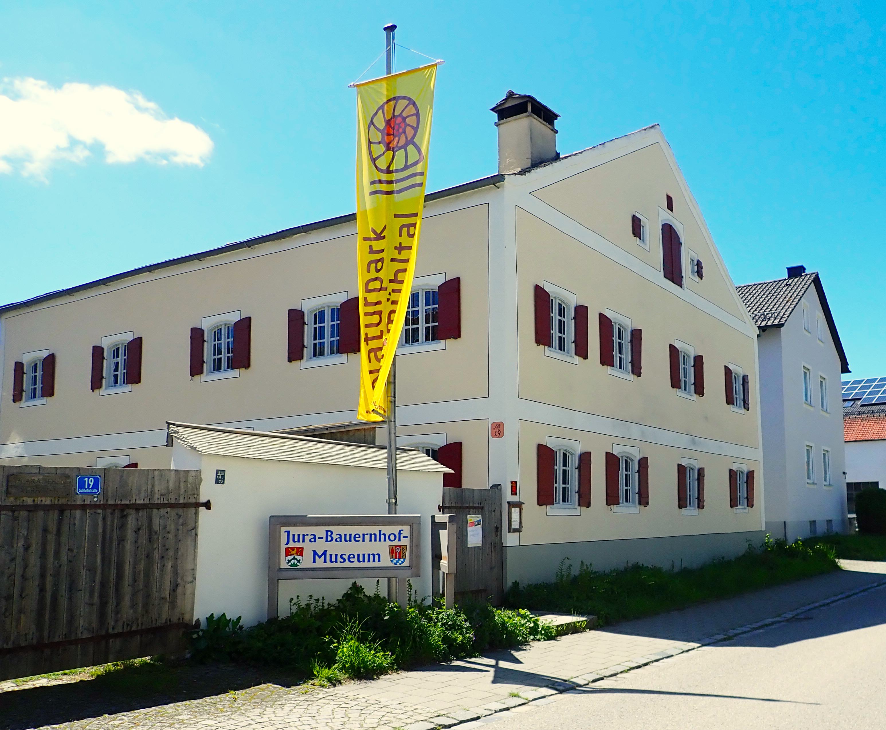 Main building of the Jura-Bauernhof-Museum. The Stone-made dwellings of limestone are typical of the Jura region. Flag of the Nature Park of the region Altmuehltal.